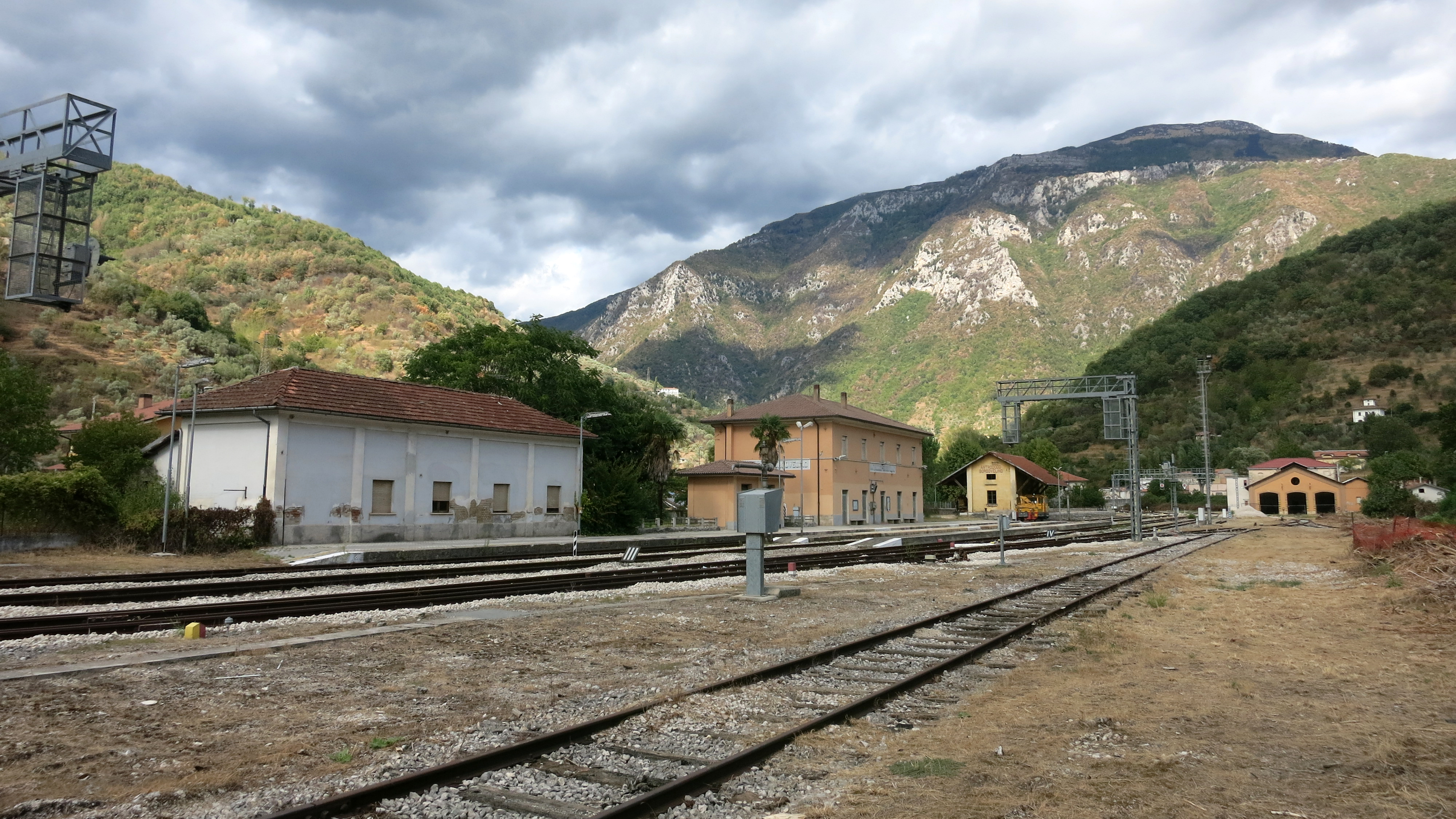 Antrodoco-Borgo Velino train station (province of Rieti, Lazio, Italy), on the Terni-Rieti-L'Aquila-Sulmona line.